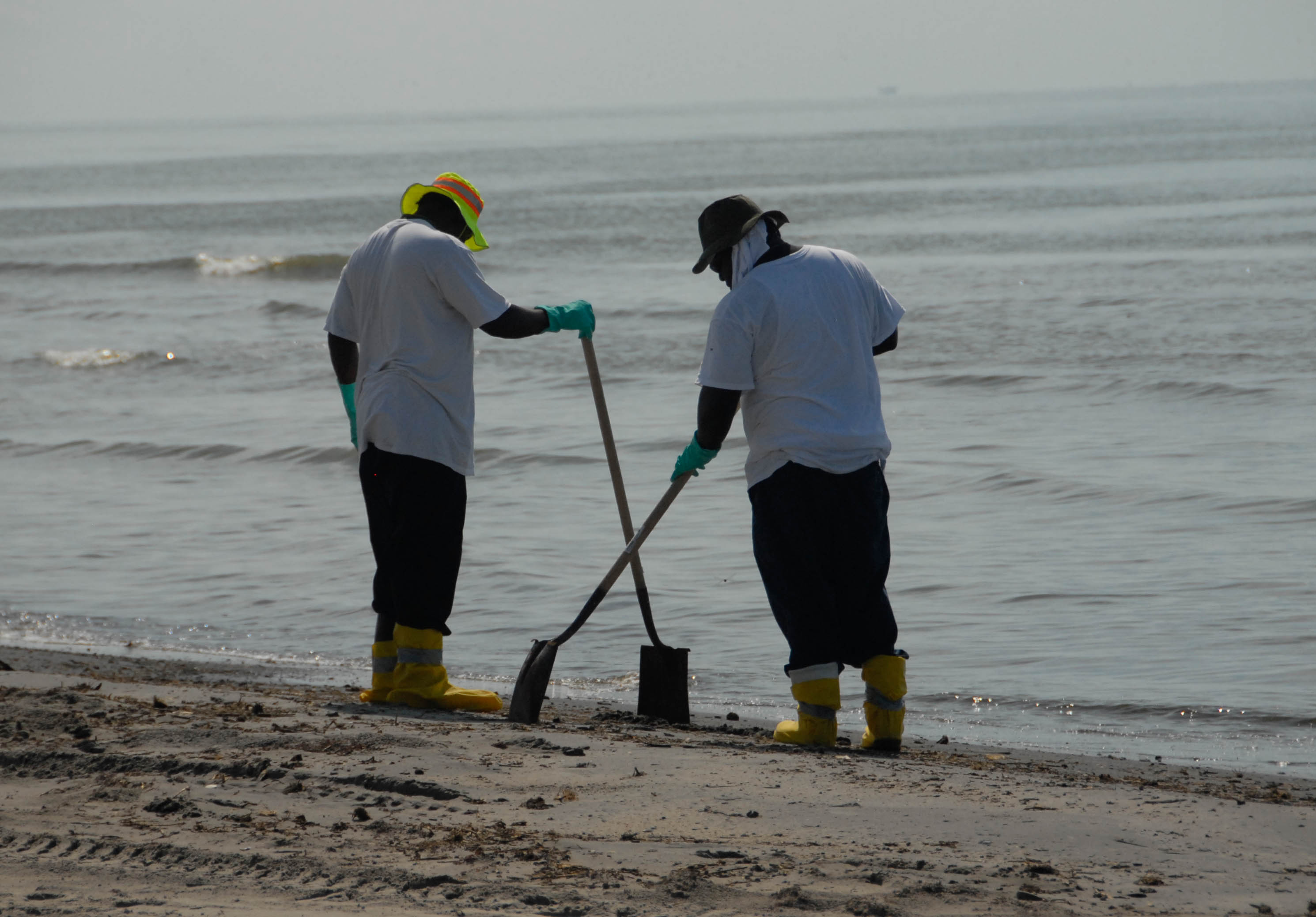 Workers cleaning up beach during Deepwater Horizon event.